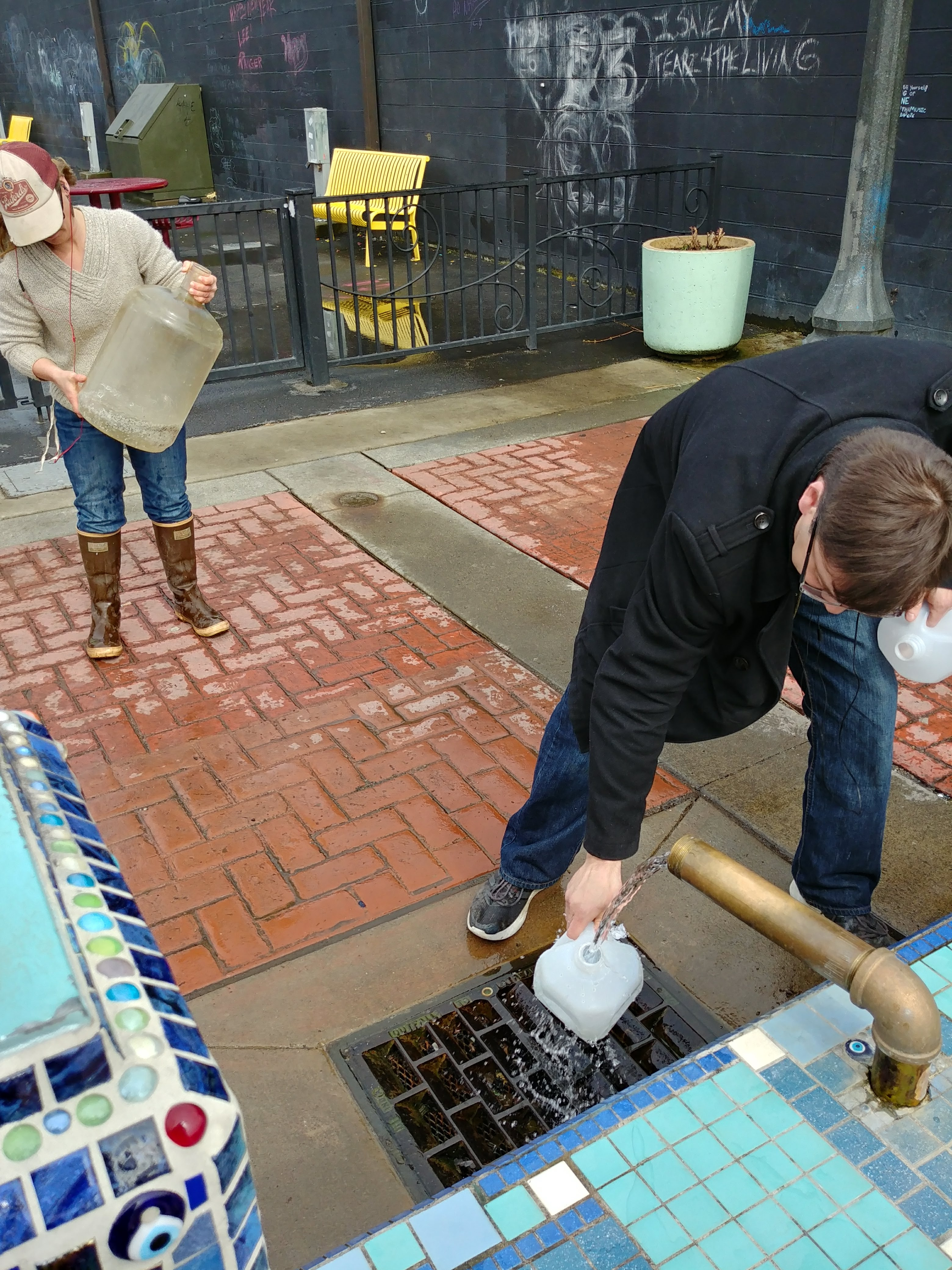 Two people filling water containers from the spring at Artesian Commons park, downtown Olympia, Washington, United States. The man told the photographer that this is his only household supply of drinking water.